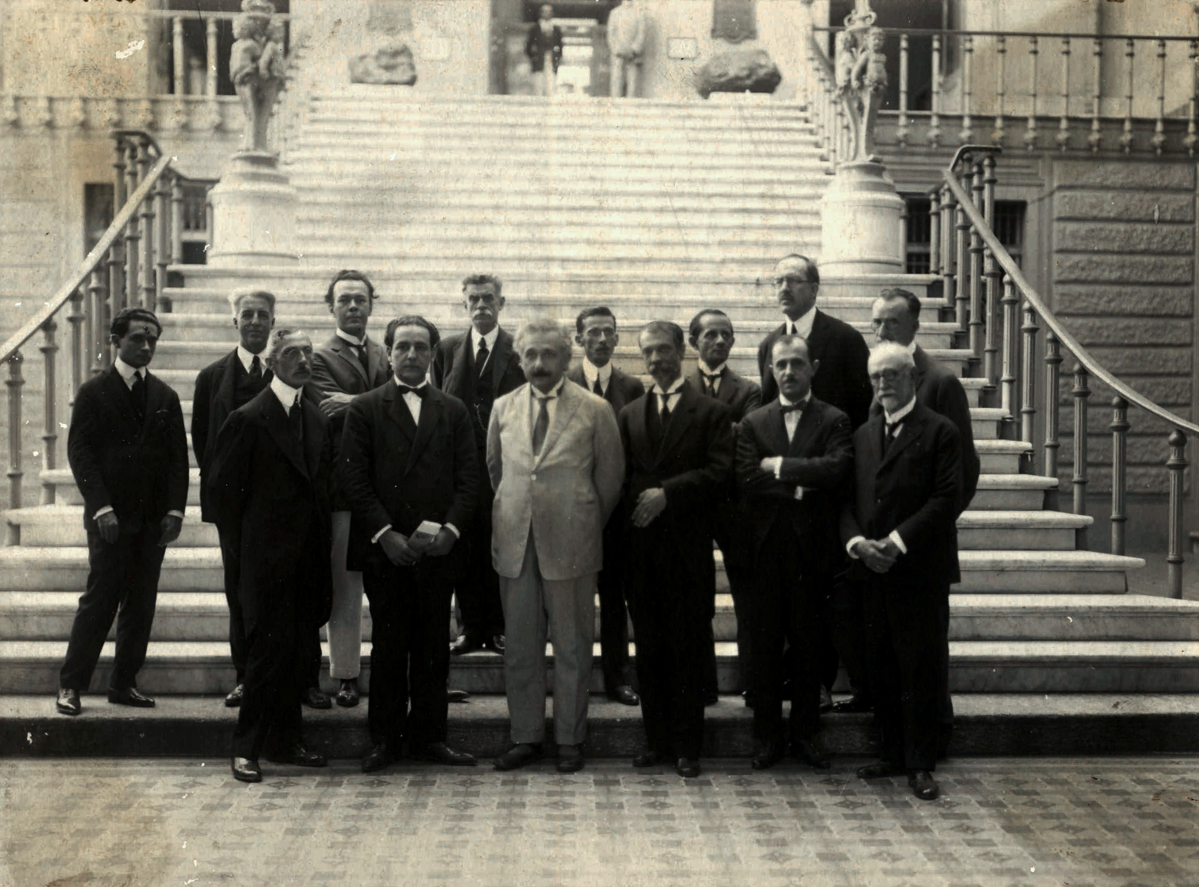 Albert Einstein's visit to the National Museum of Brazil. Rio de Janeiro, May 5th, 1925.